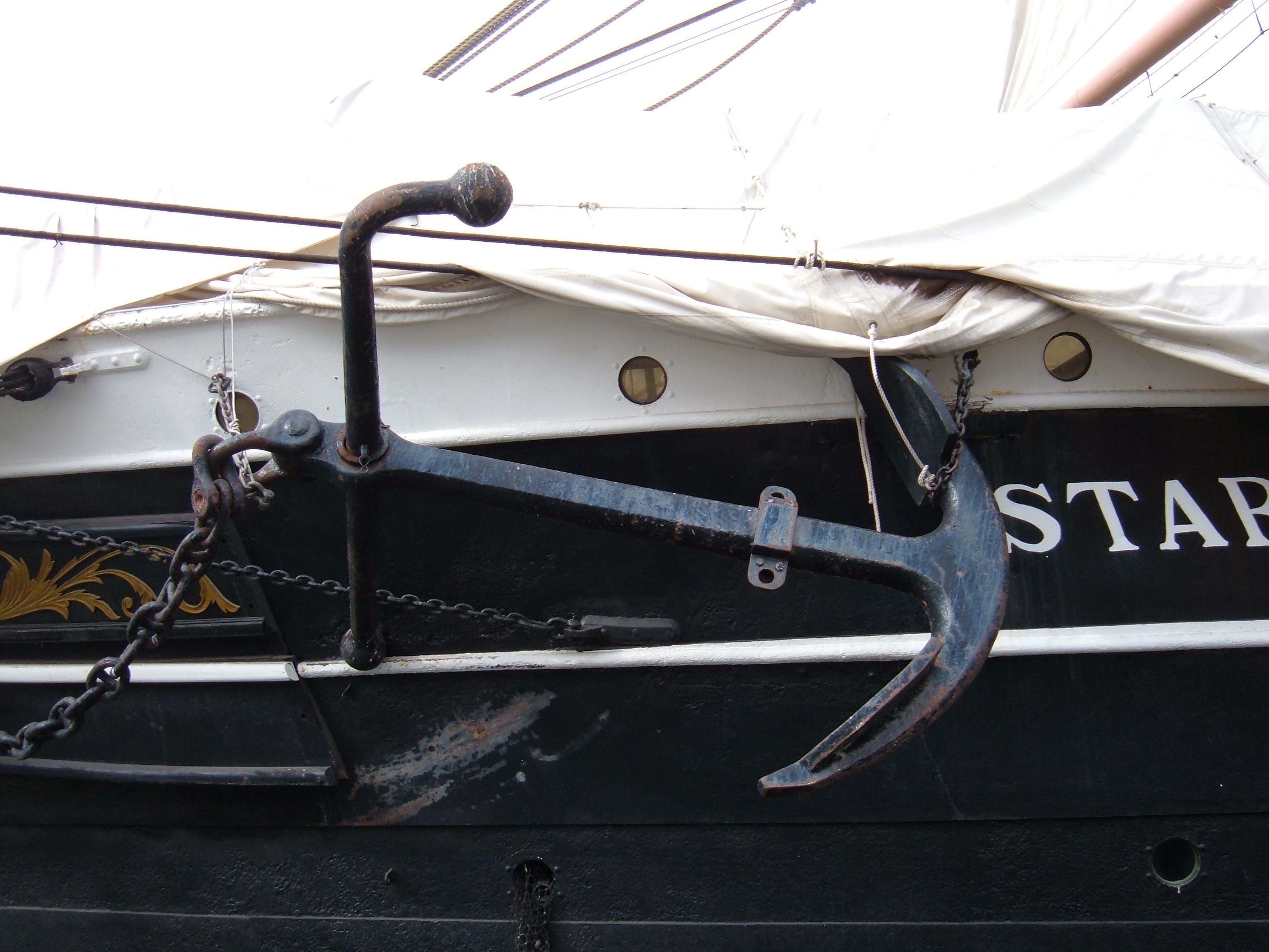 The anchor of the Star of India, part of the Maritime Museum of San Diego in San Diego, California.